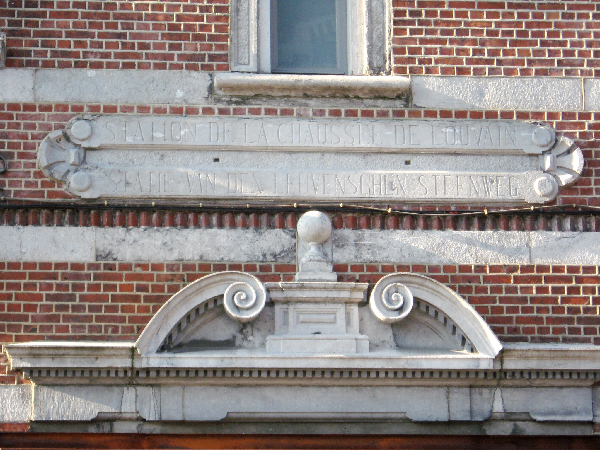 Inscription above the main entrance of the former train station Leuvensesteenweg in Sint-Joost-ten-Node, Brussels Region, Belgium